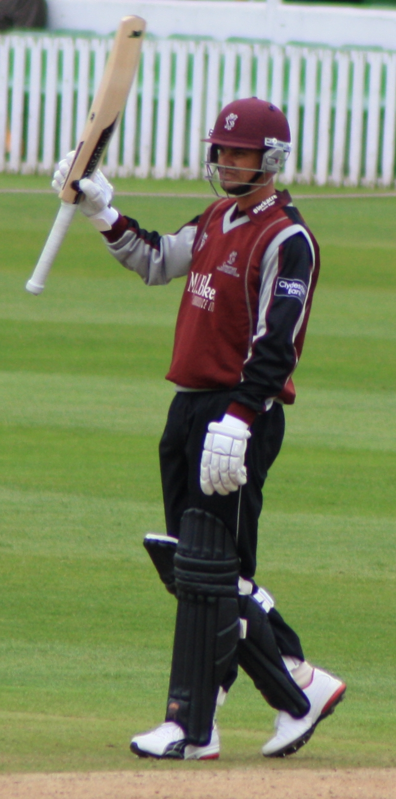 Zander de Bruyn acknowledges the crowd's applause having reached his half-century against the Unicorns in a Clydesdale Bank 40 match at the County Ground, Taunton.